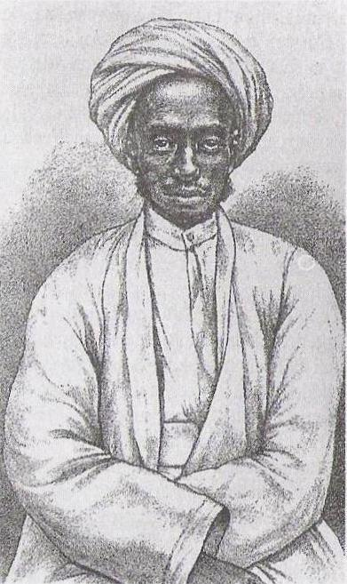 Emir Abd Allah of Harer (1875-1877)